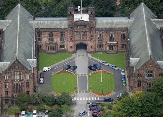 The Centre Quadrangle, Bolton School